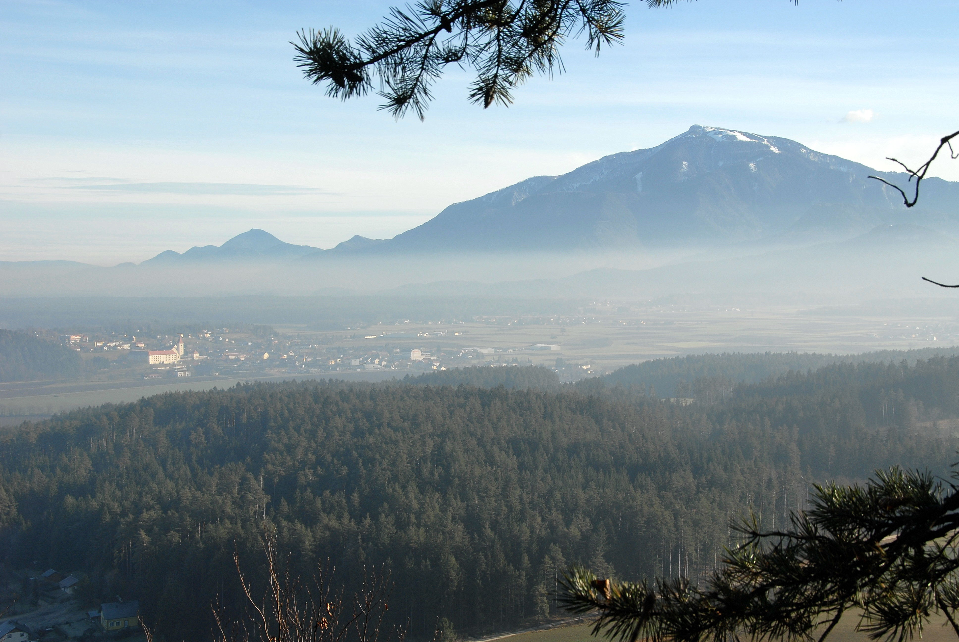 Petzen mountain and Eberndorf in the Jaun valley, seen from the Mount Georgi, district Voelkermarkt, Carinthia, Austria